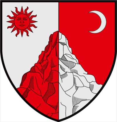 Coat of arms of Bacău County, Romania.